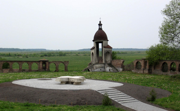 The complex in honour of the of Belz-Częstochowa Black Madonna painting, build in 1935, today partial destroyed.